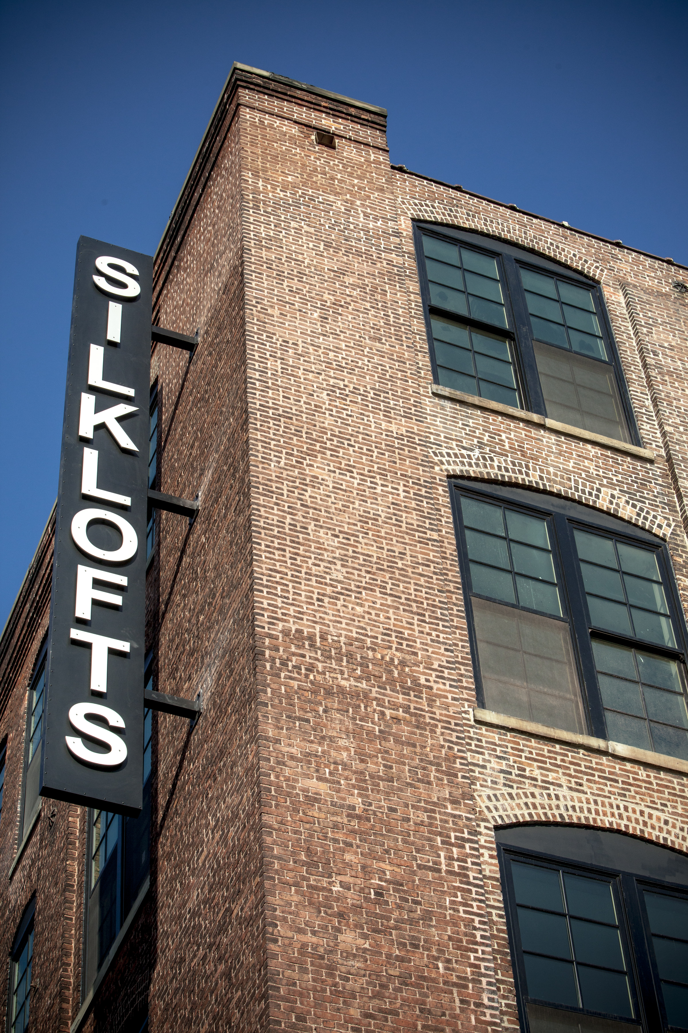 The old Maidenform factory reclaimed as housing